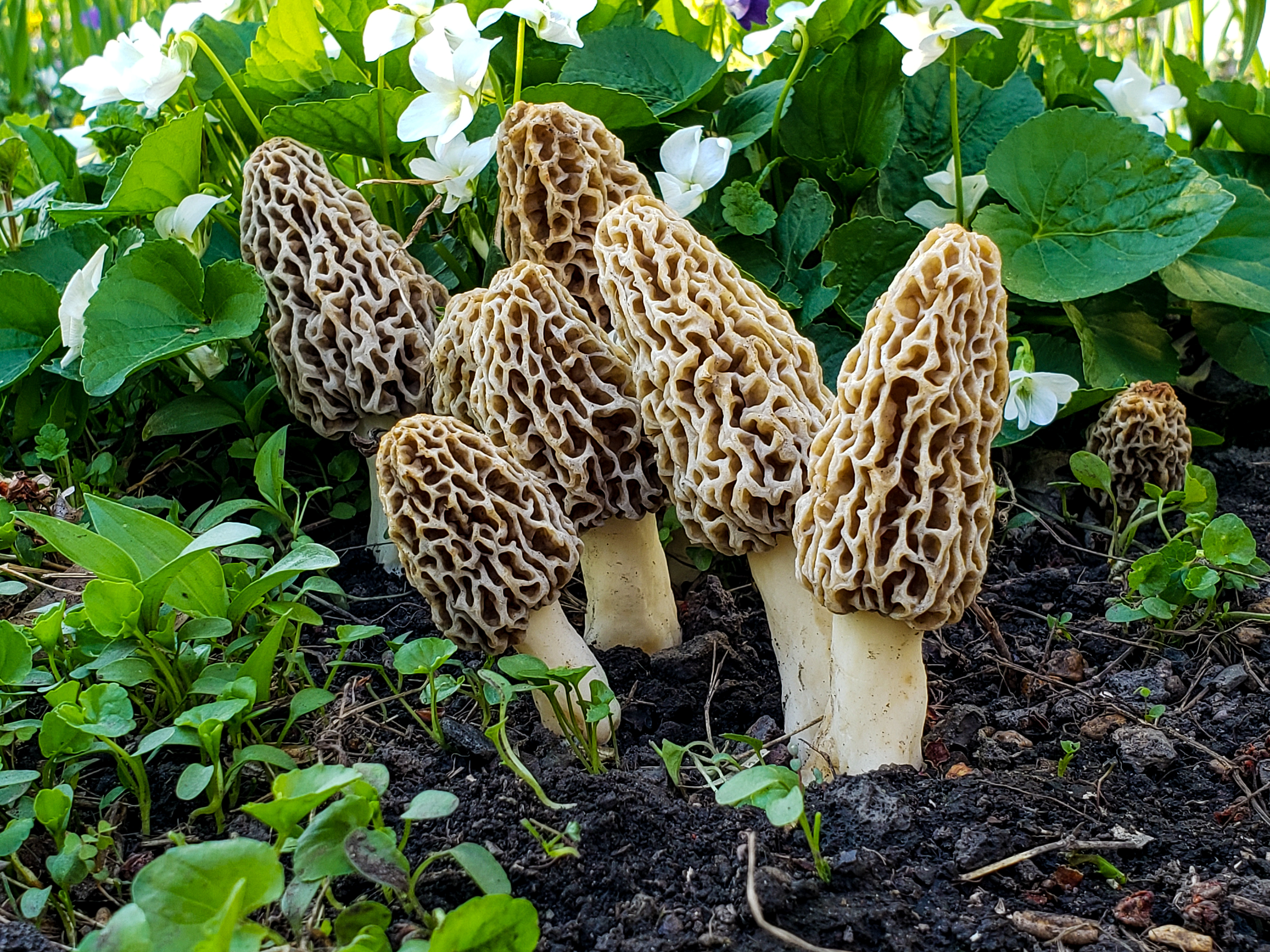 Group of Morchella esculenta found in Knox County, Illinois in May 2020